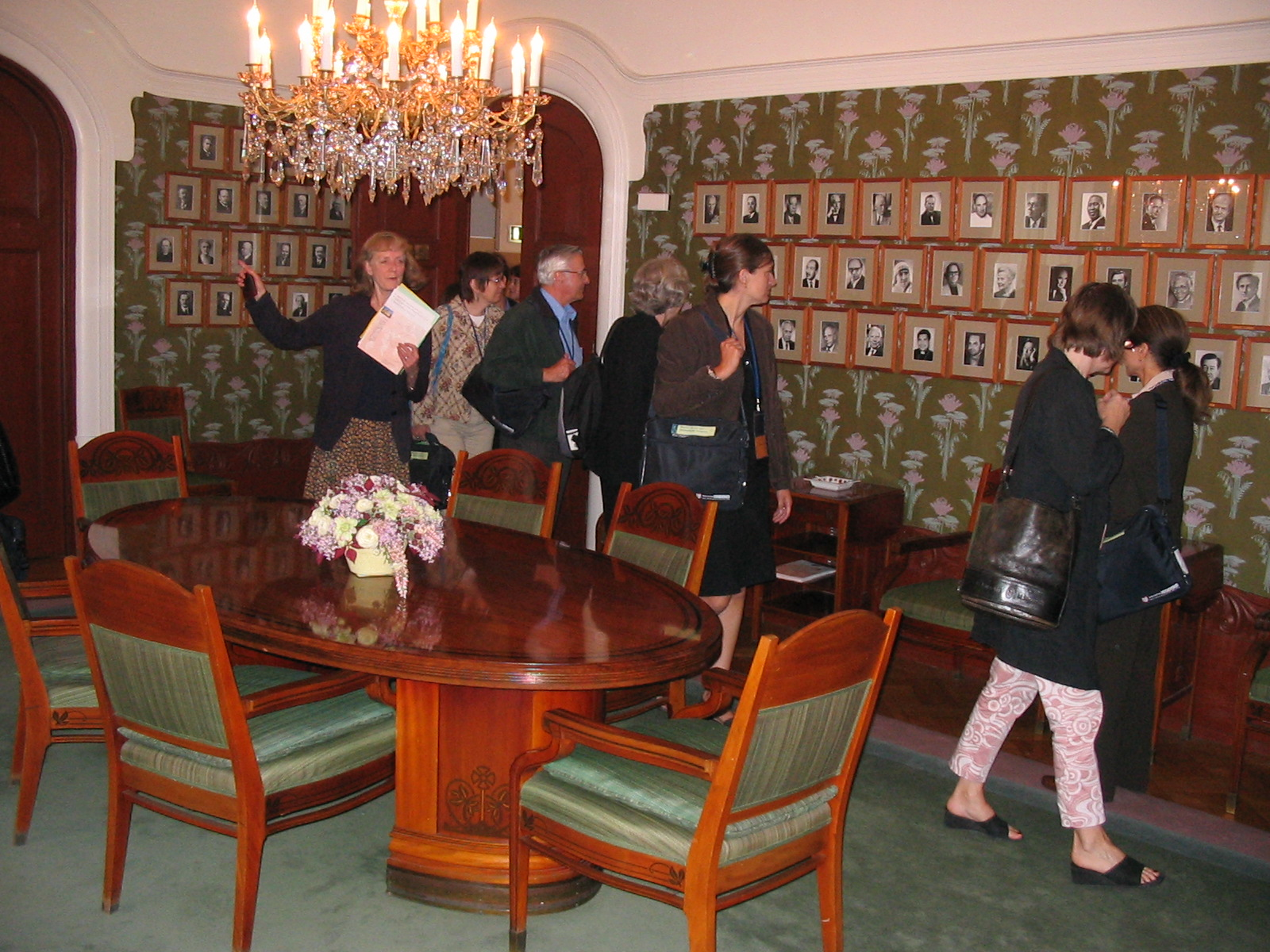 Norway, Oslo, Nobel Institute, meeting room of the Nobel Committee. Foto taken during a guided tour.